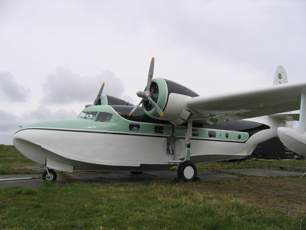 photo by Meggar